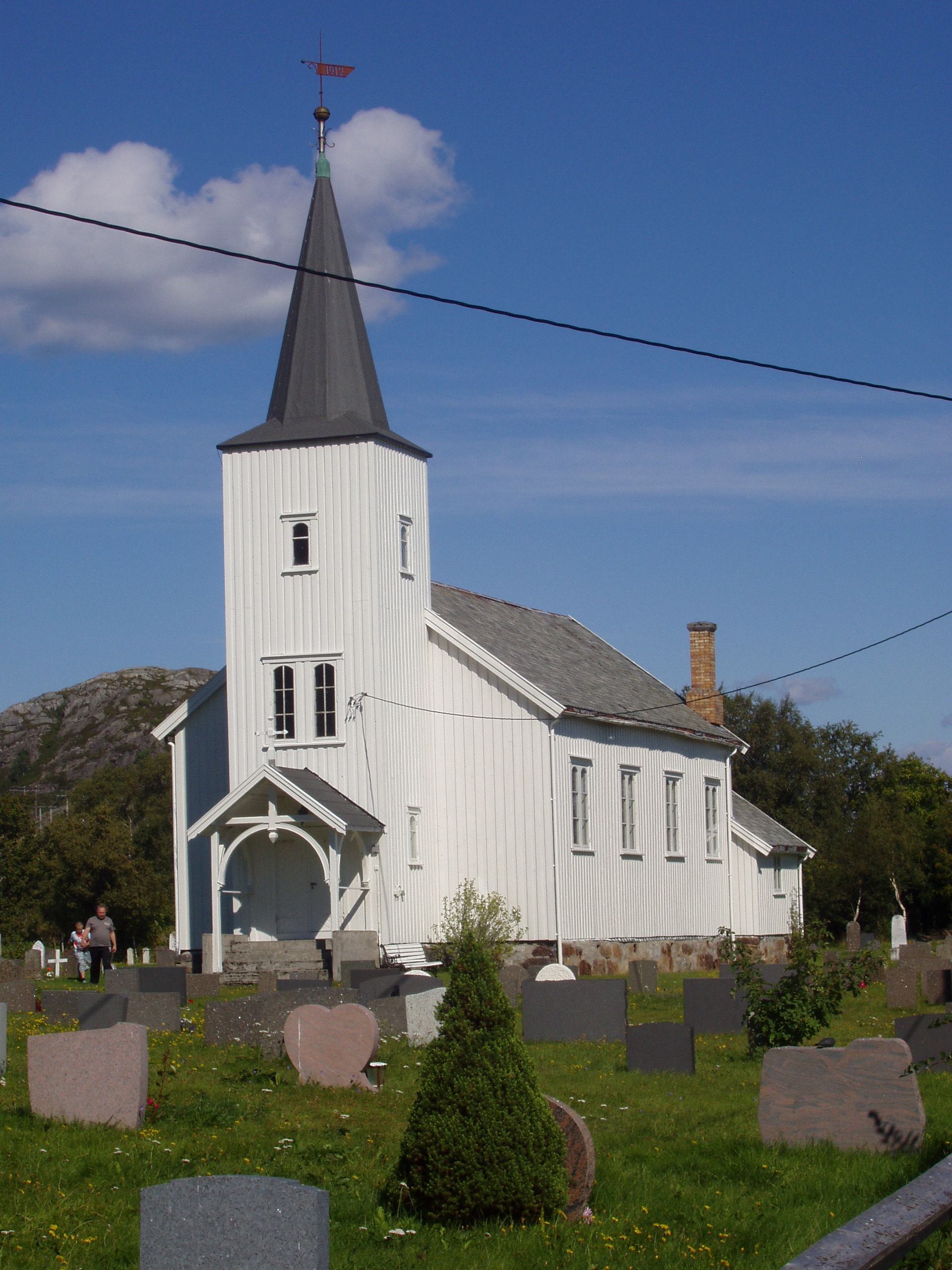 Hæstad church, Dønna in Nordland, built 1913